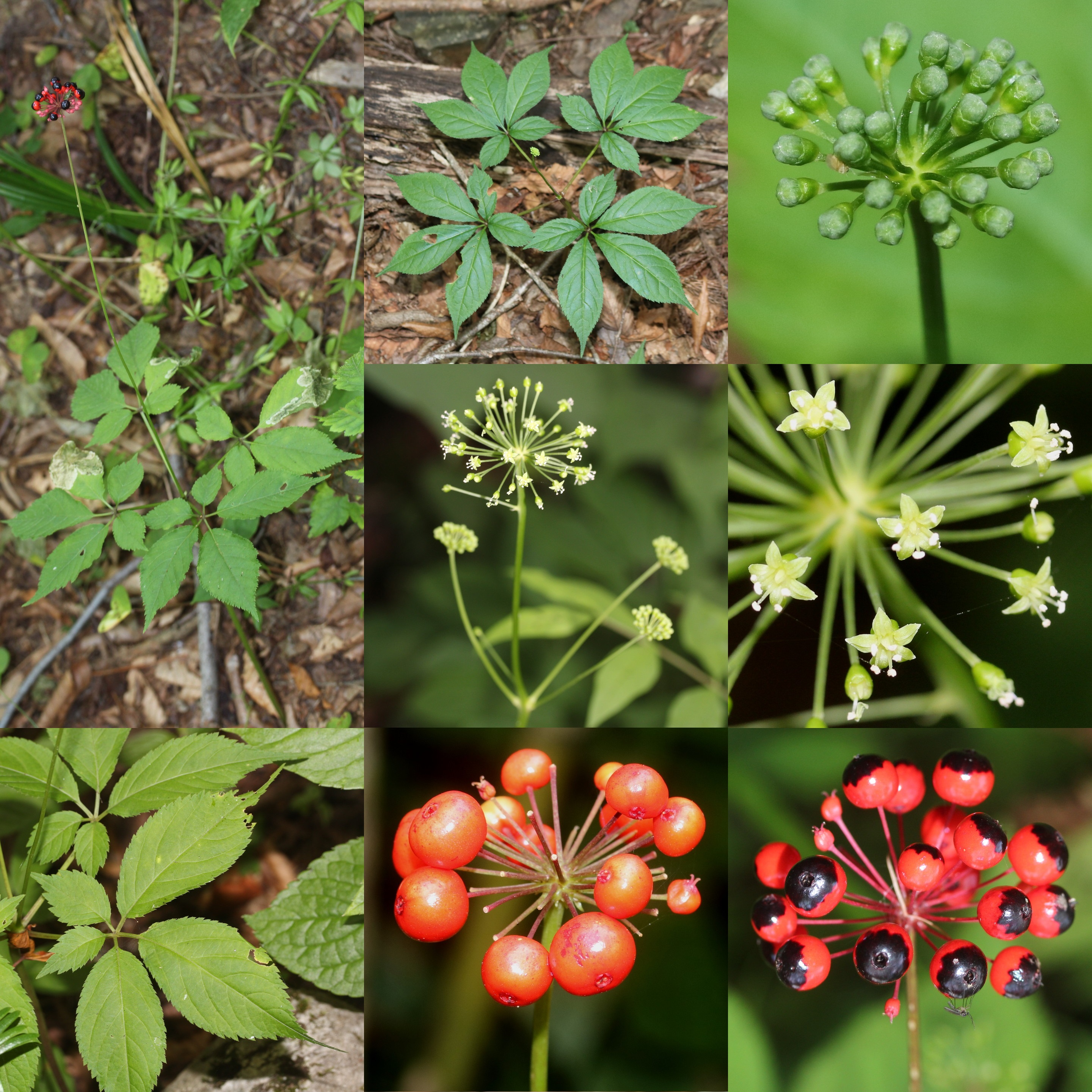 Montage of Panax japonicus in Japan.